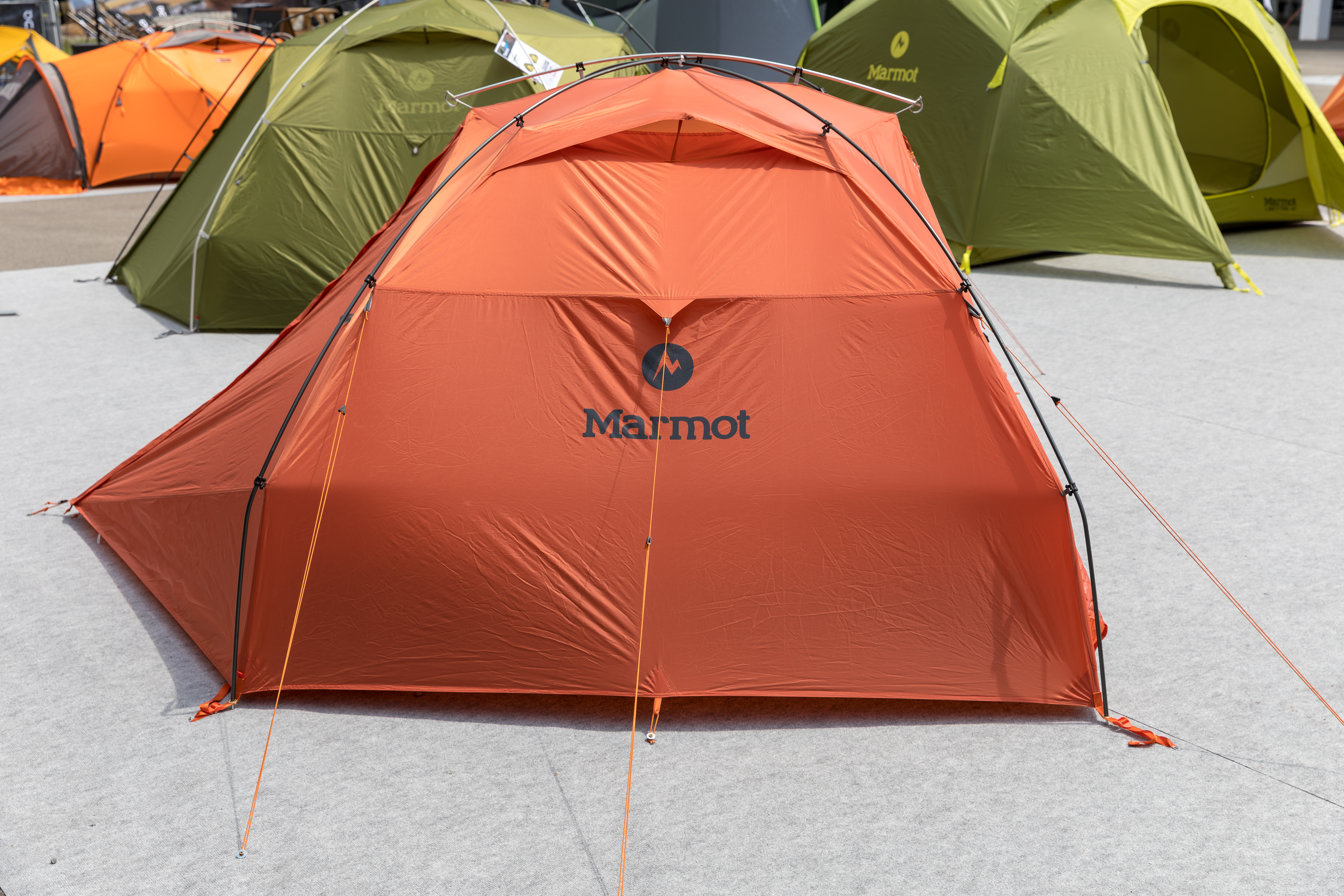 Marmot tent at OutDoor 2018